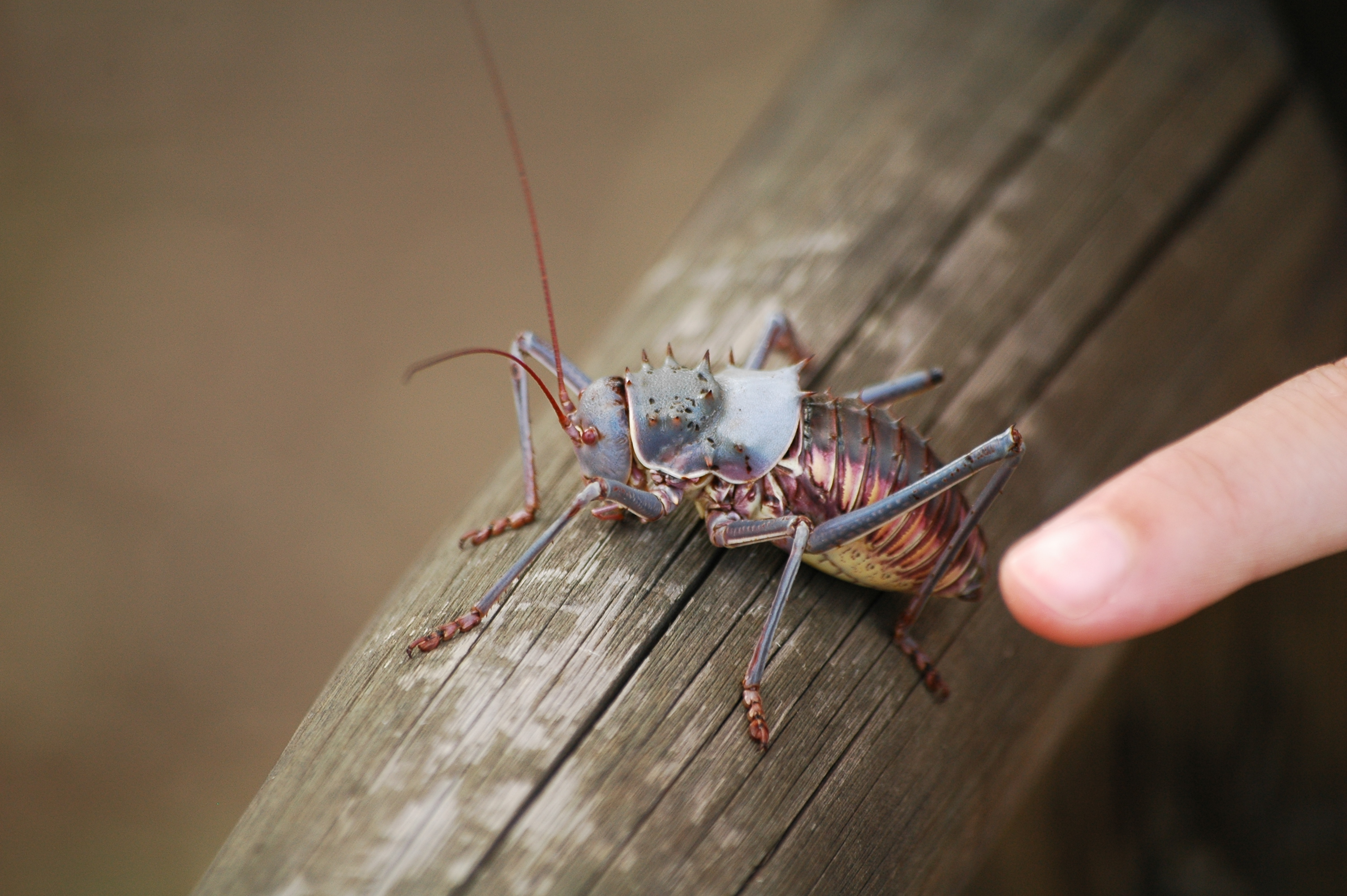 Acanthoplus discoidalis, South Africa, Kruger Park